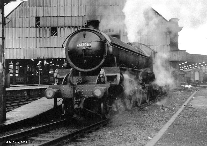 61306 at Bradford Exchange